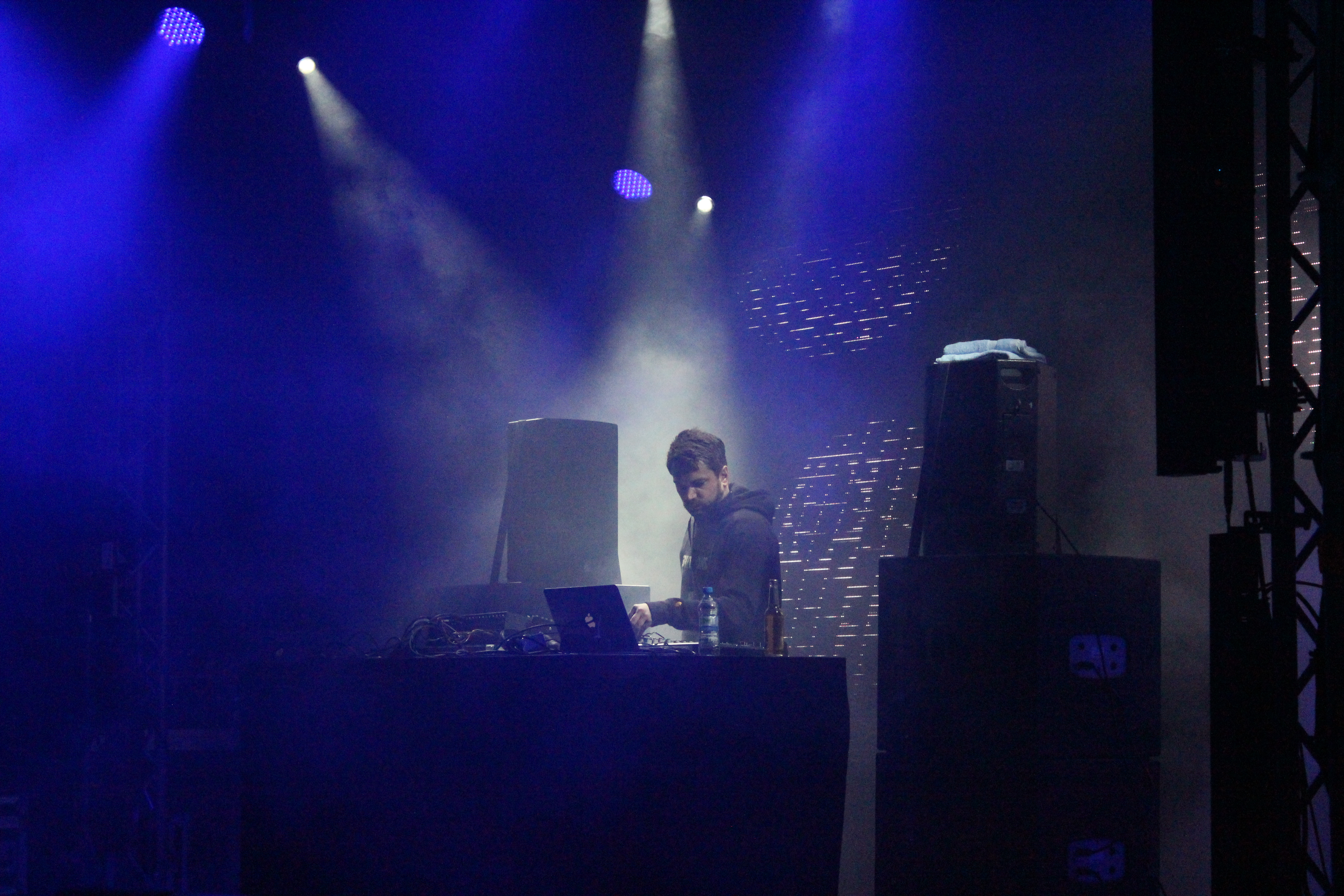 Berlin-based DJ Shed plays at Melt! Festival in Ferropolis, Gräfenhainichen Germany, July 13, 2012.